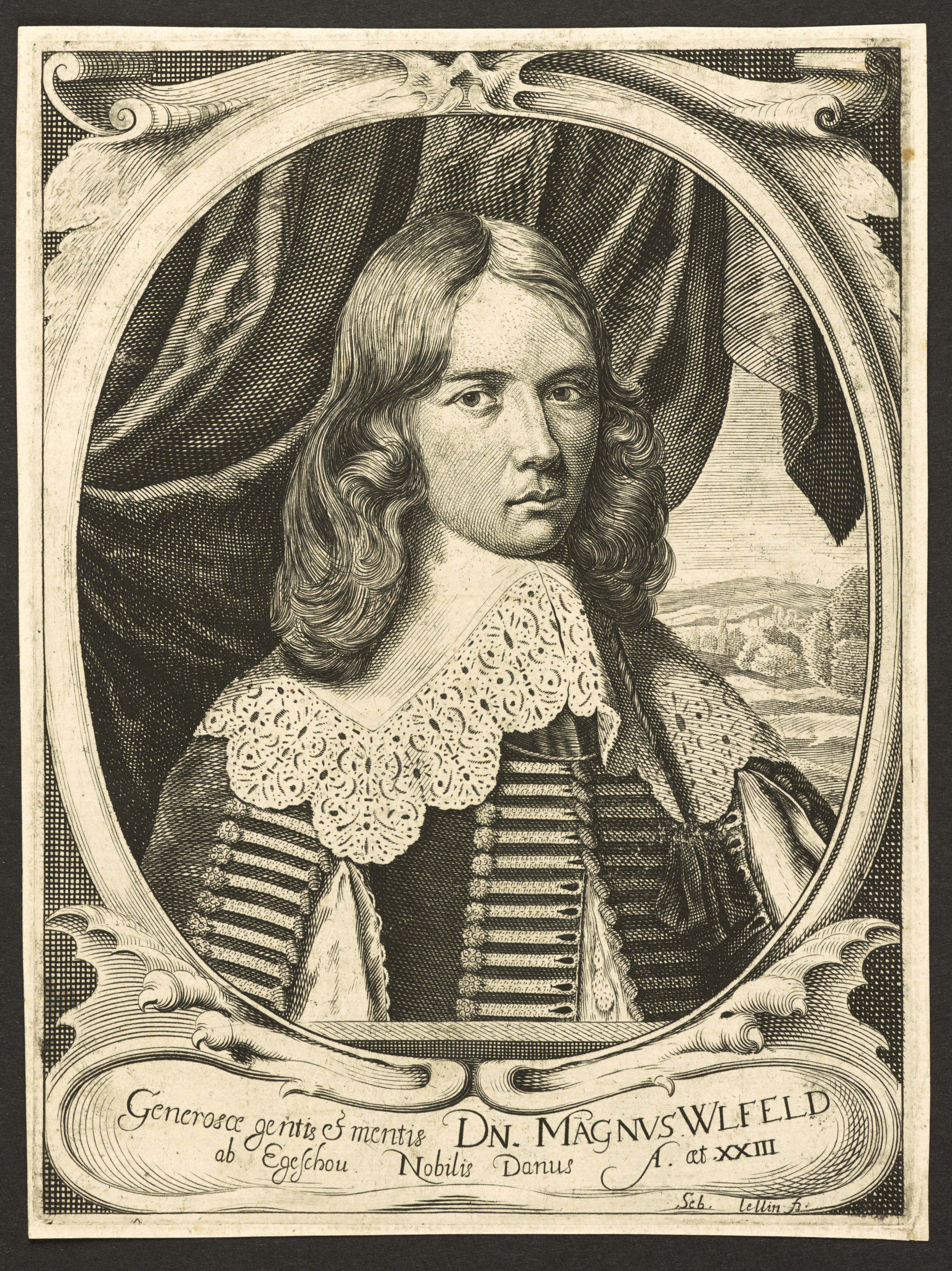 Mogens Ylfeldt /died 1616), Rigsadmiral